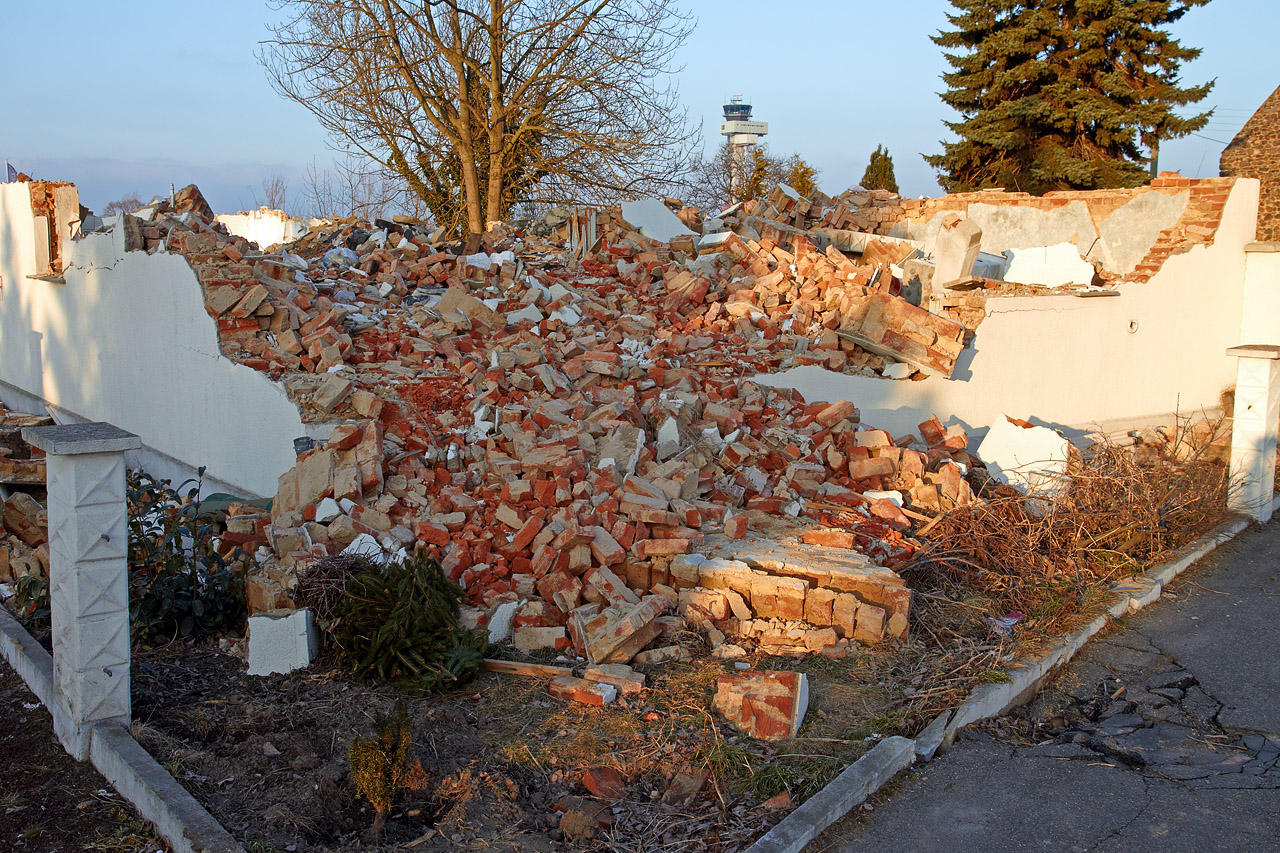 Kursdorf in Saxony is a village surrounded by the LEJ-Airport, trainpath and freeway. So it fades away.